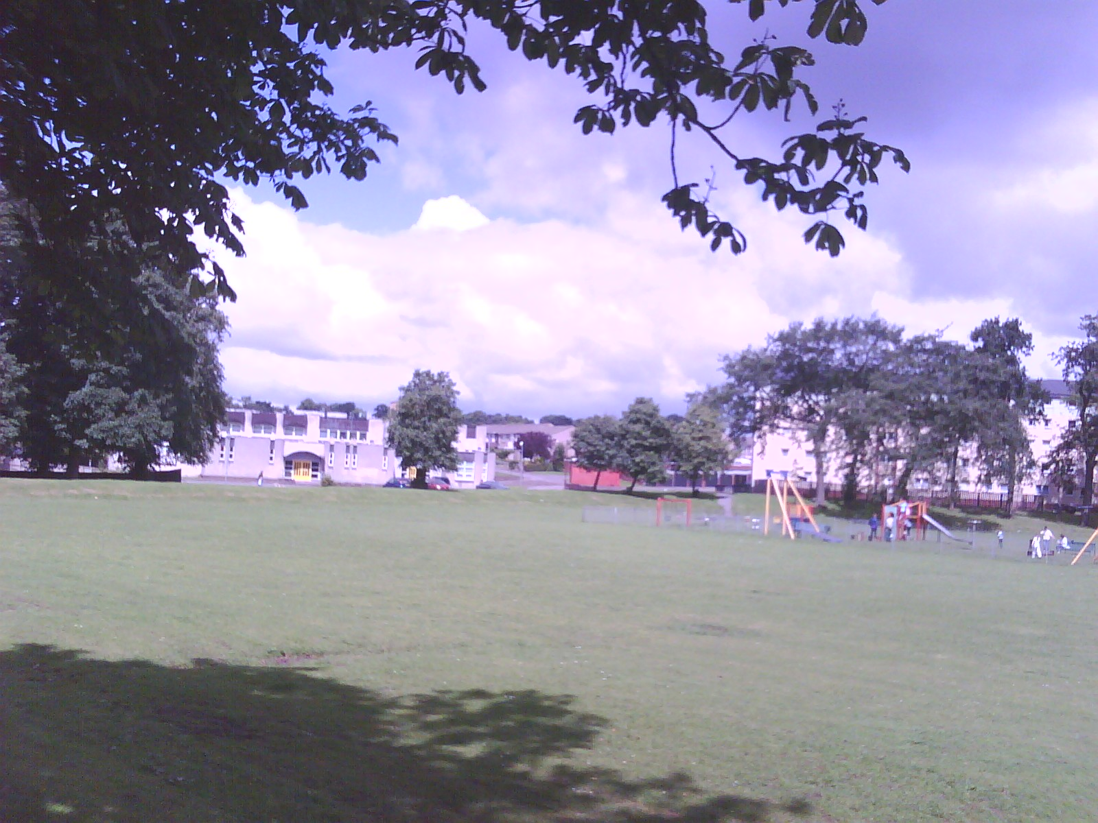 A view of the Loch with playpark and the community centre